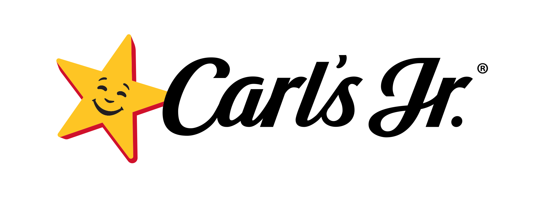 This is the 2018 logo of Carl's Jr.